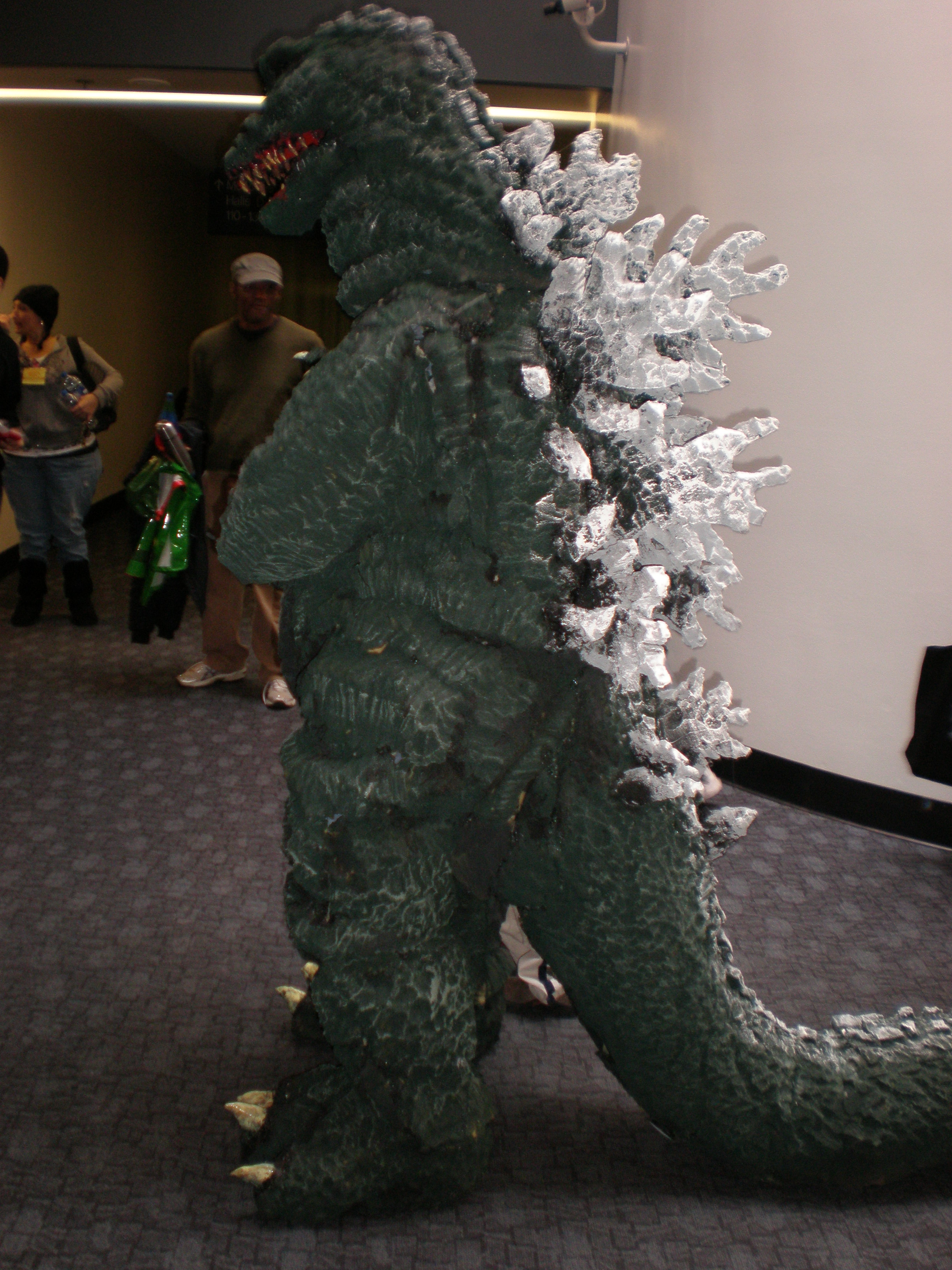 Gabe McIntosh cosplaying as Godzilla at WonderCon 2009. This particular costume won Best Re-Creation at the Masquerade competition.